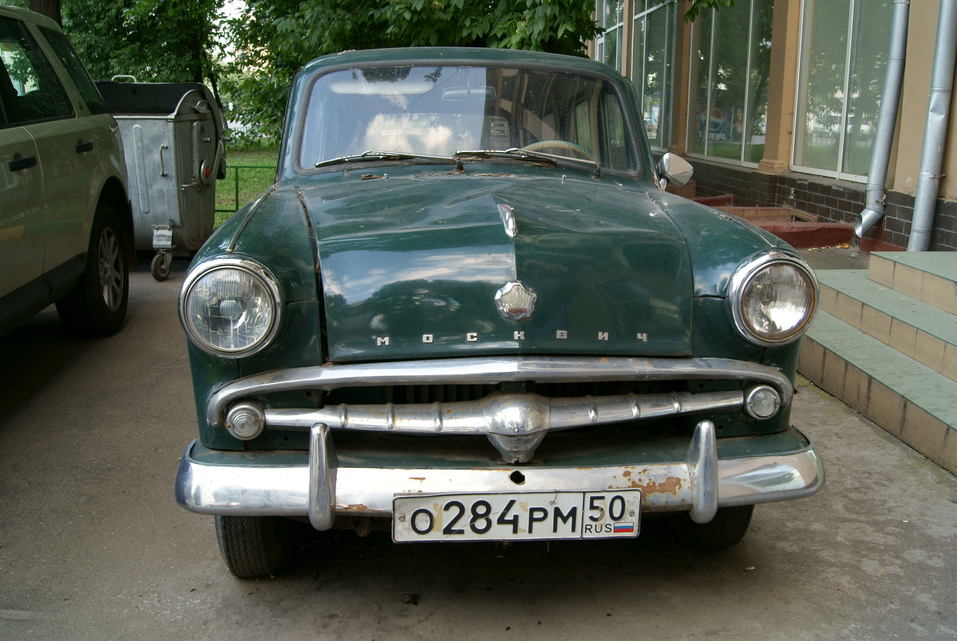 The first soviet station wagon. Moskvitch-423 is a station wagon modification of Moskvitch-402 sedan. One of the first modifications of Moskvitch-423 of 1958-1959 model years. First cars had a same drains along the roof as on the sedan modifications. Also in the first modification of the Moskvitch-423 the fifth door opened from right to left.